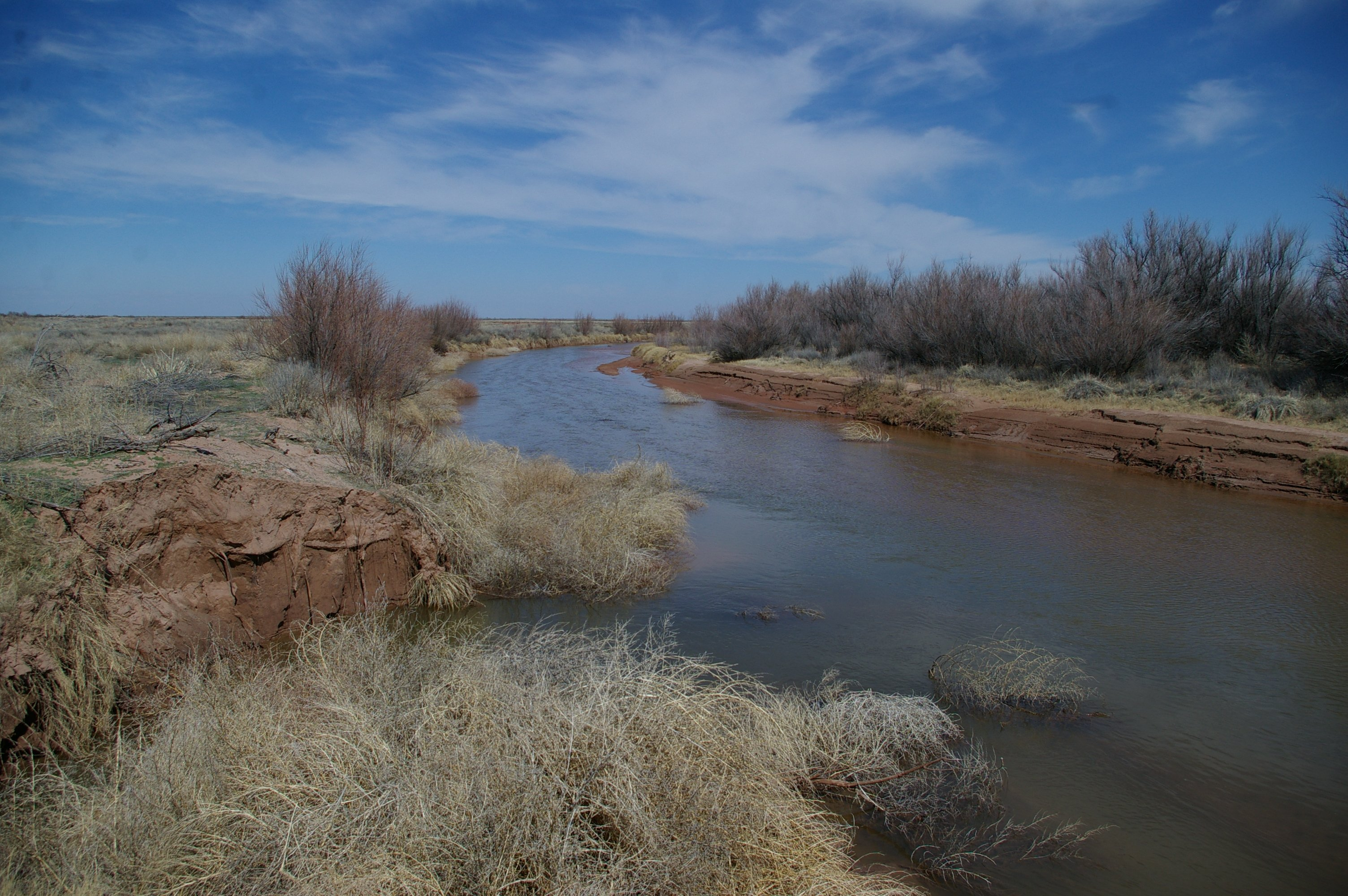 A view of the Pecos River as it looks flowing through the Bitter Lake National Wildlife Refuge, Roswell, NM.